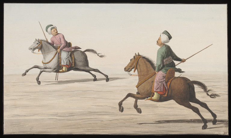 Two men playing the game of cirid, involving the throwing of javelins from horseback